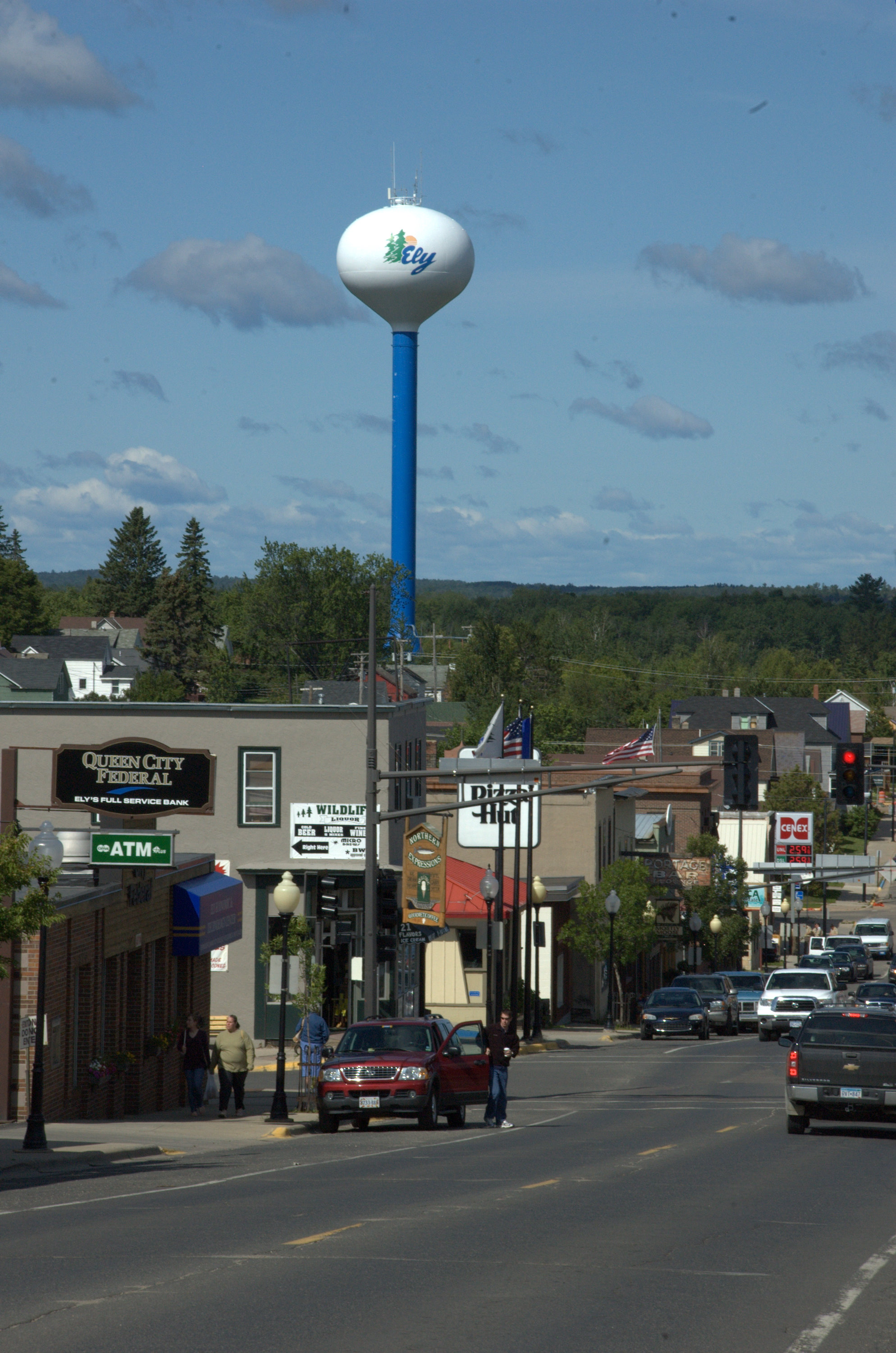 Northen MN